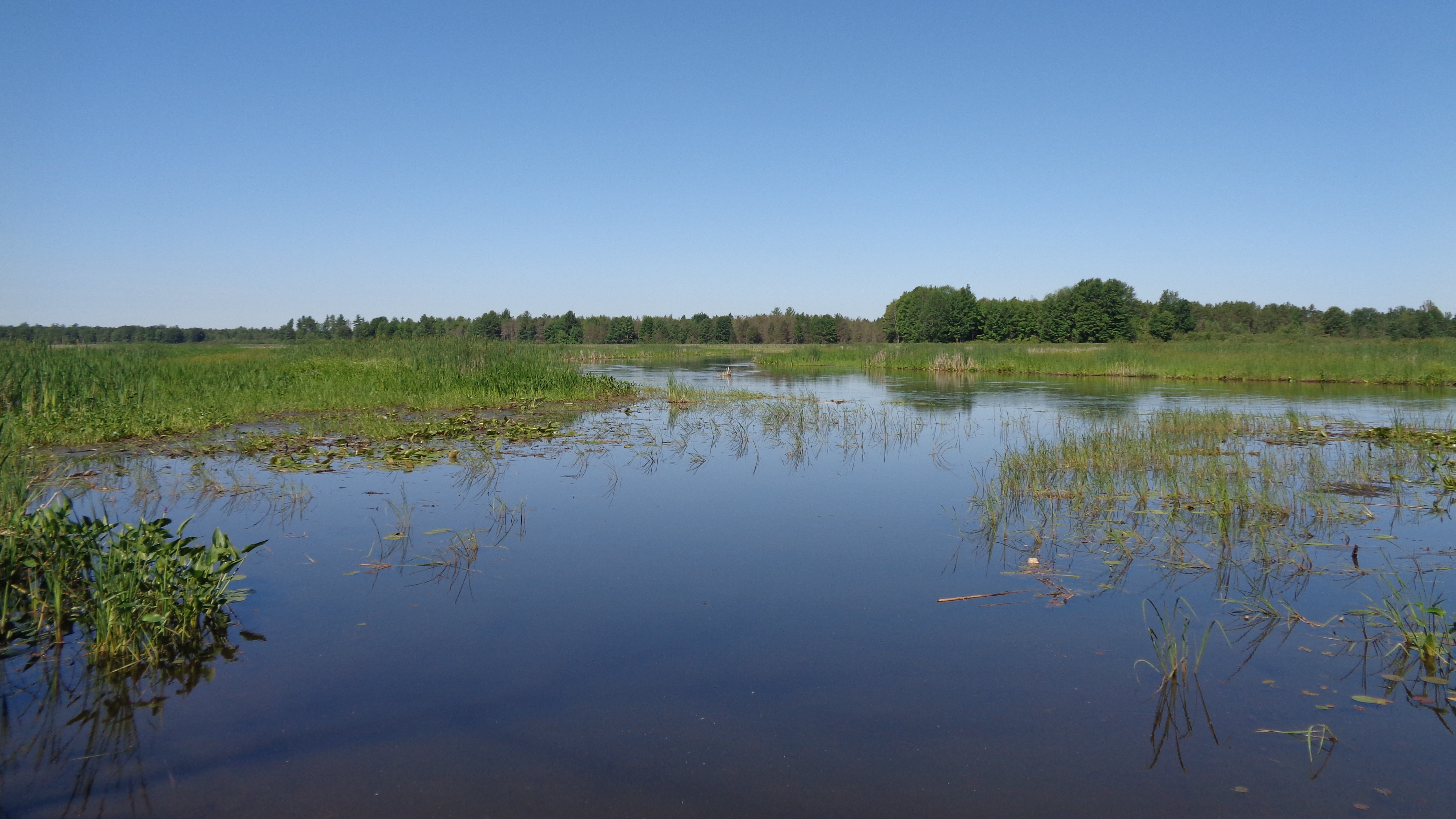 Depicted place: Dead Stream Flooding State Wildlife Management Area